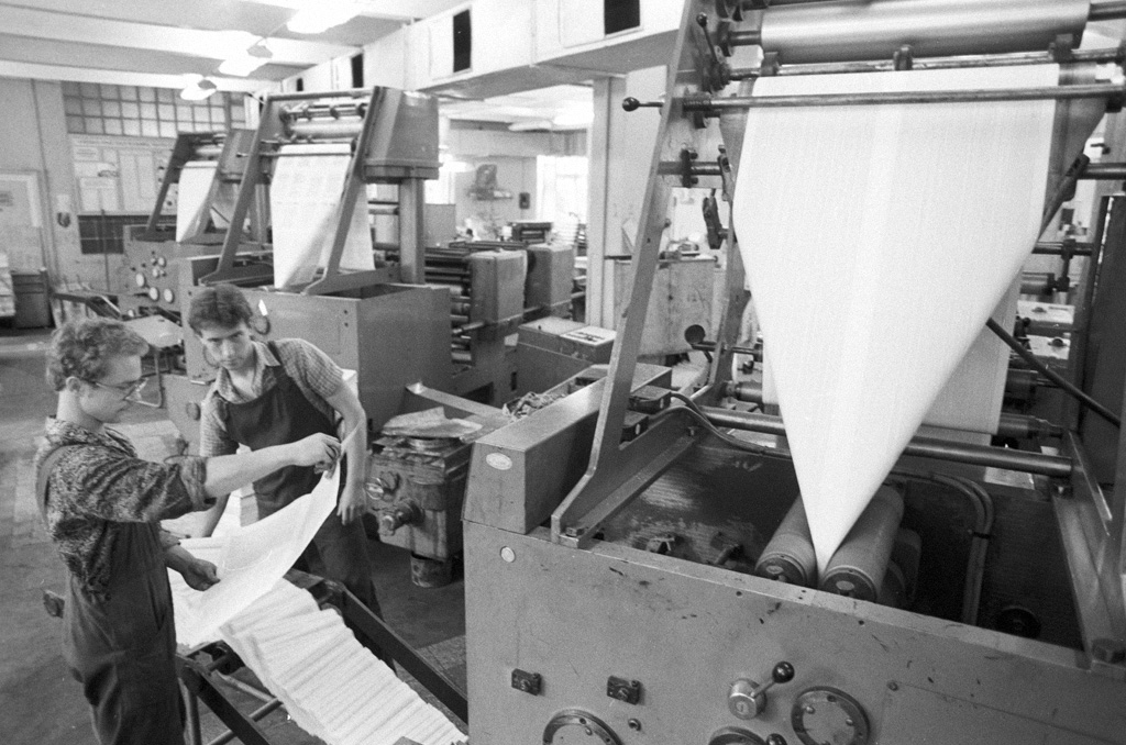 “All-Union institute of scientific and technical information”. All-Union (currently all-Russian) institute of scientific and technical information. Offset shop of the printing-office of the institute.